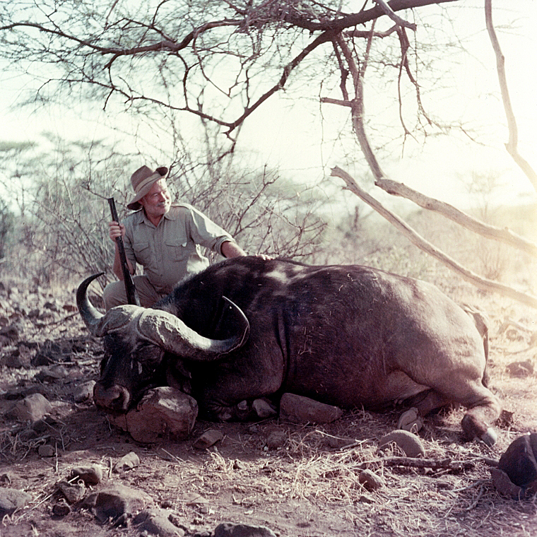 Ernest Hemingway posing with a cape buffalo while on safari in Africa in 1953-1954